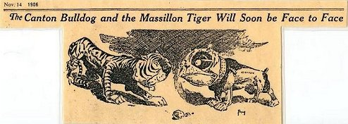 Canton Bulldogs-Massillon Tigers Betting Scandal was the first major scandal in professional football. It refers to an allegation made by Massillon newspaper charging the Canton Bulldogs coach, Blondy Wallace, with throwing the 1906 Ohio League championship game against their rivial the Massillon Tigers. This is a newspaper cartoon promoting that game.